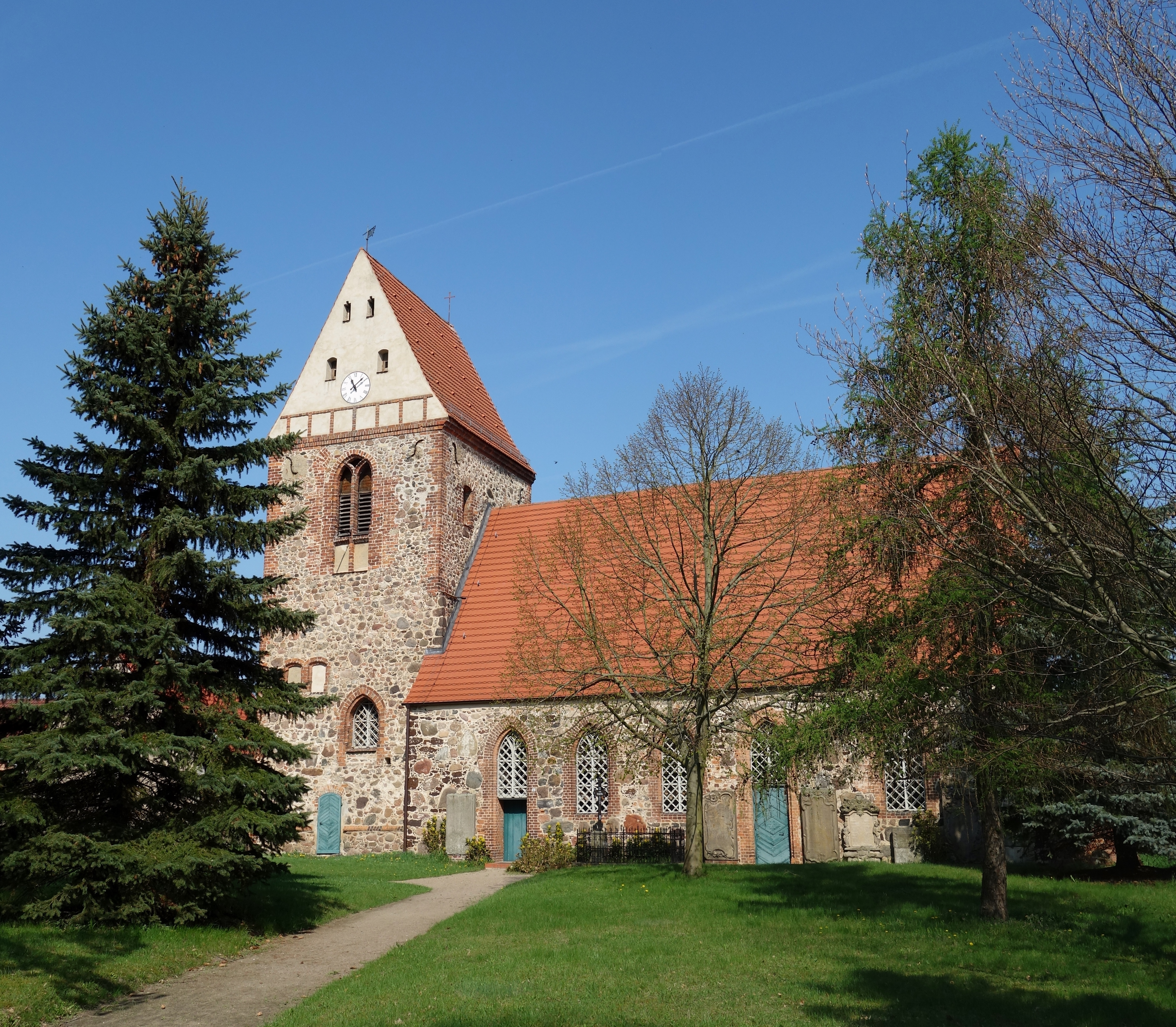 Southern view of the church in Schlalach , Mühlenfließ municipality, Potsdam-Mittelmark district, Brandenburg state, Germany